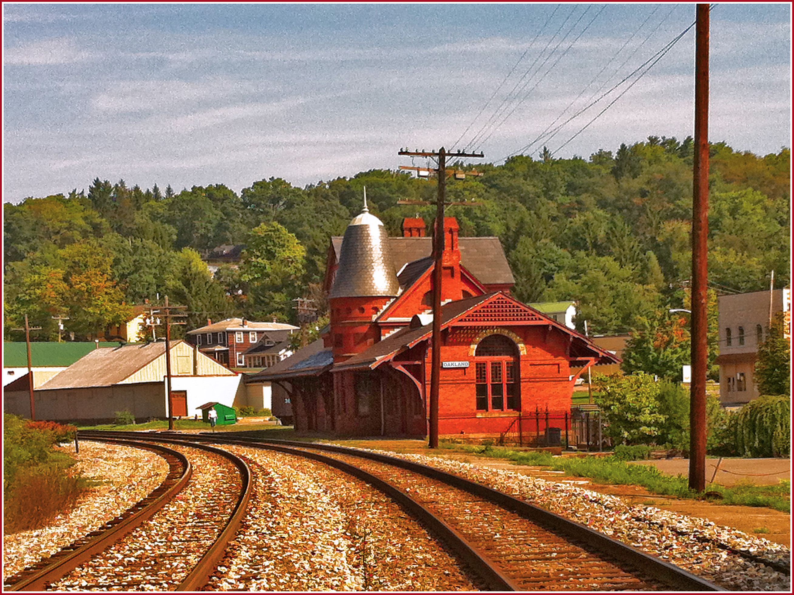 iPhone image taken by Ron Cogswell on August 20, 2011.